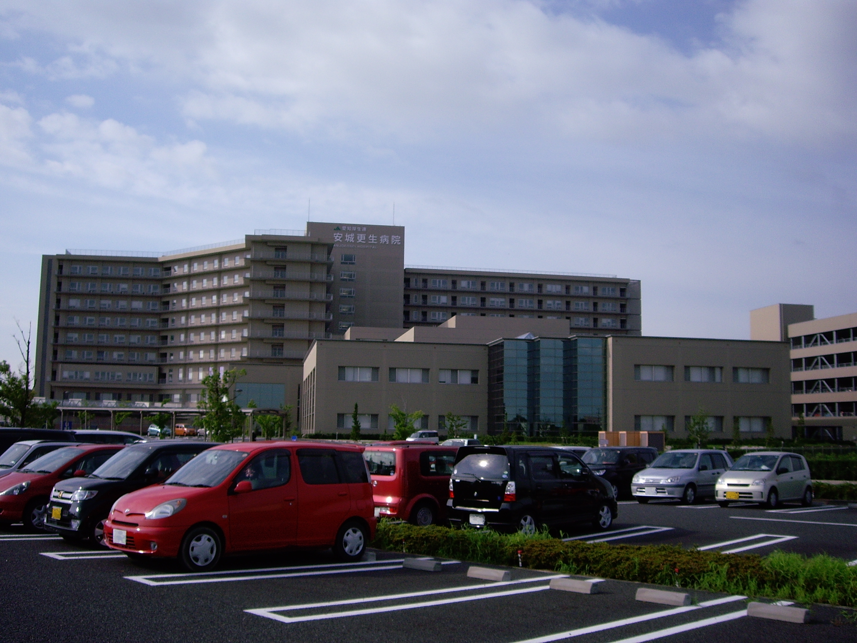 Anjo Kosei Hospital, in Anjo, Aichi.